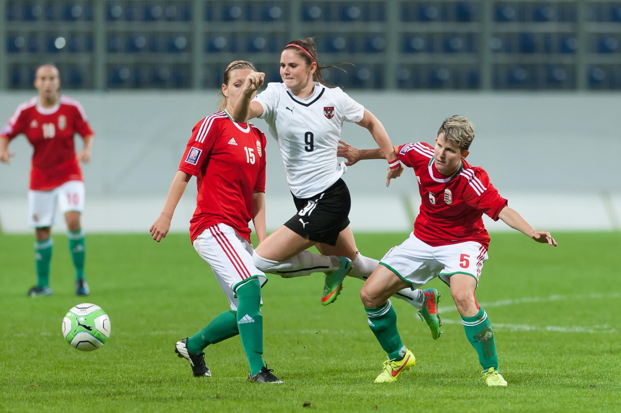 FIFA Women's World Cup 2015: Qualifying Round St. Pölten, 13.09.2014 Sarah Zadrazil, Tímea Gál